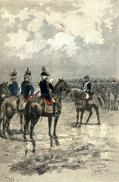 An illustration from Jules Verne's novel "The Flight to France" (or "The Flight to France; or, The Memoirs of a Dragoon. A Tale of the Day of Dumouriez", 1887) drawn by George Roux.